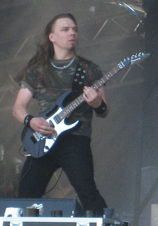 Elias Viljanen from Sonata Arctica at Sauna open air metal festival 2007